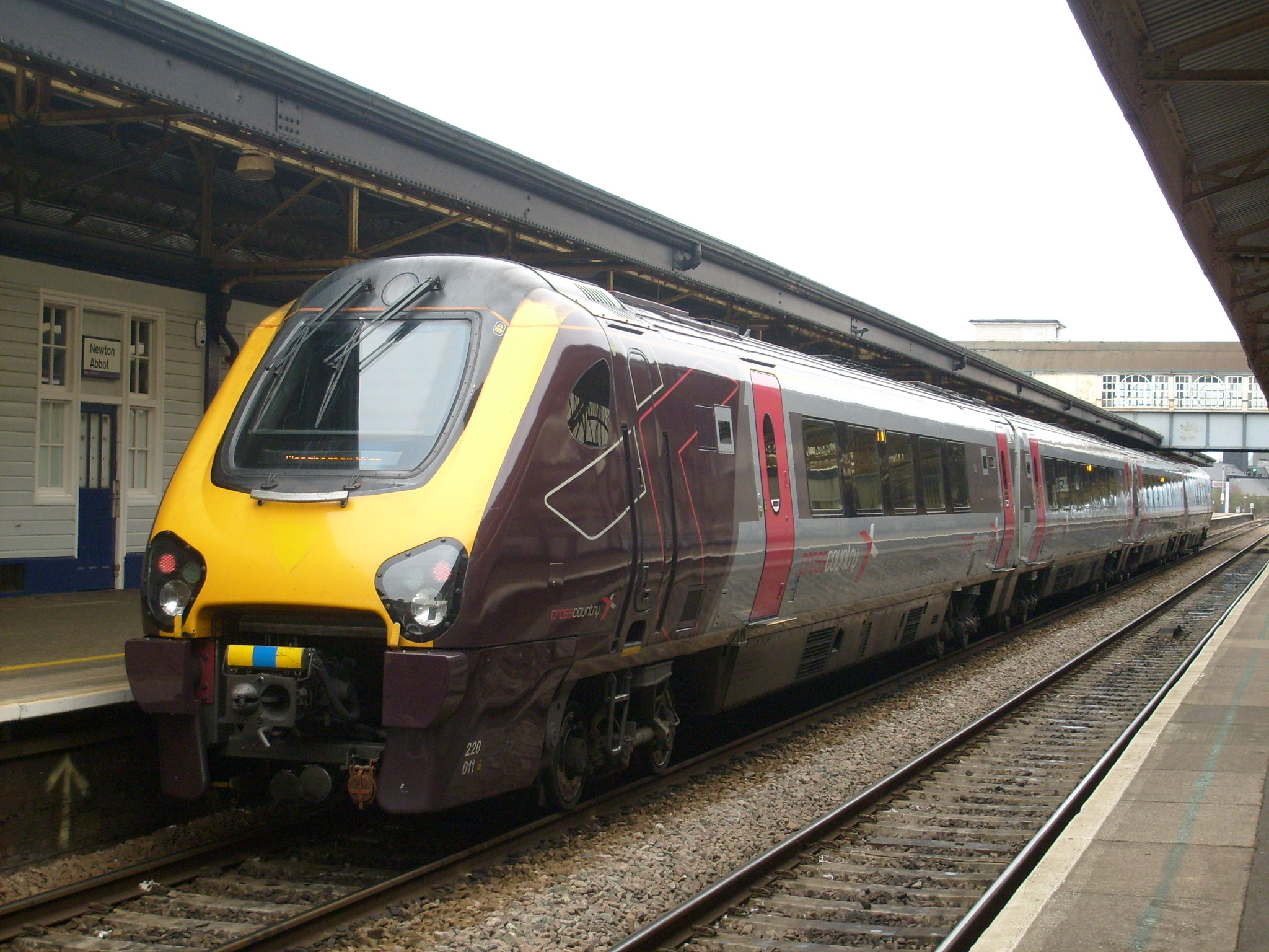 Bombardier Class 220 Voyager No. 220011 at Newton Abbot